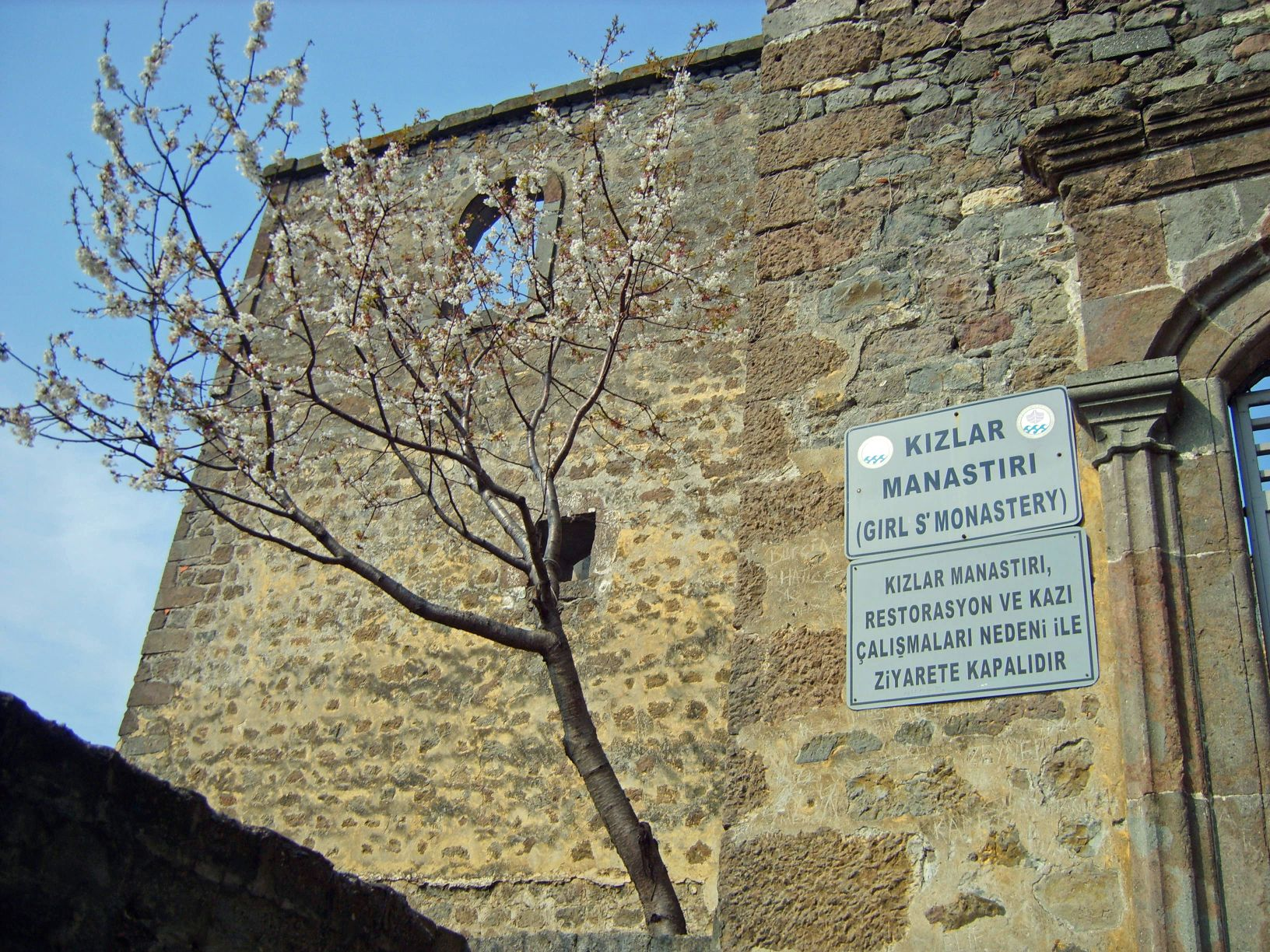 Kızlar (Panagia Theoskepastos) Monastery in Trabzon, Turkey